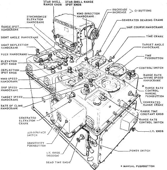 Mk1A Computer. Cropped portion of image scanned from source.